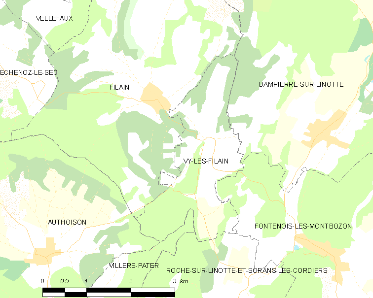 Map of French municipality